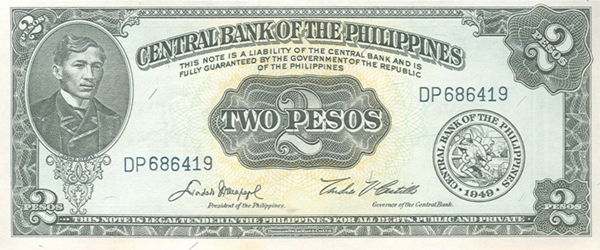 Obverse of the 2-Philippine peso English series banknote